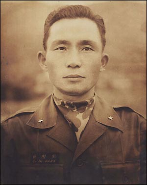 Park Chung-hee as Deputy Commander, 6th Corps in 1957